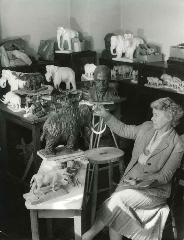 Marjorie Maitland Howard working on models at the UCL Institute of Archaeology, c. 1958, including models of prehistoric animals used by Frederick Zeuner and the bust of V. Gordon Childe now displayed in the library of the Institute.